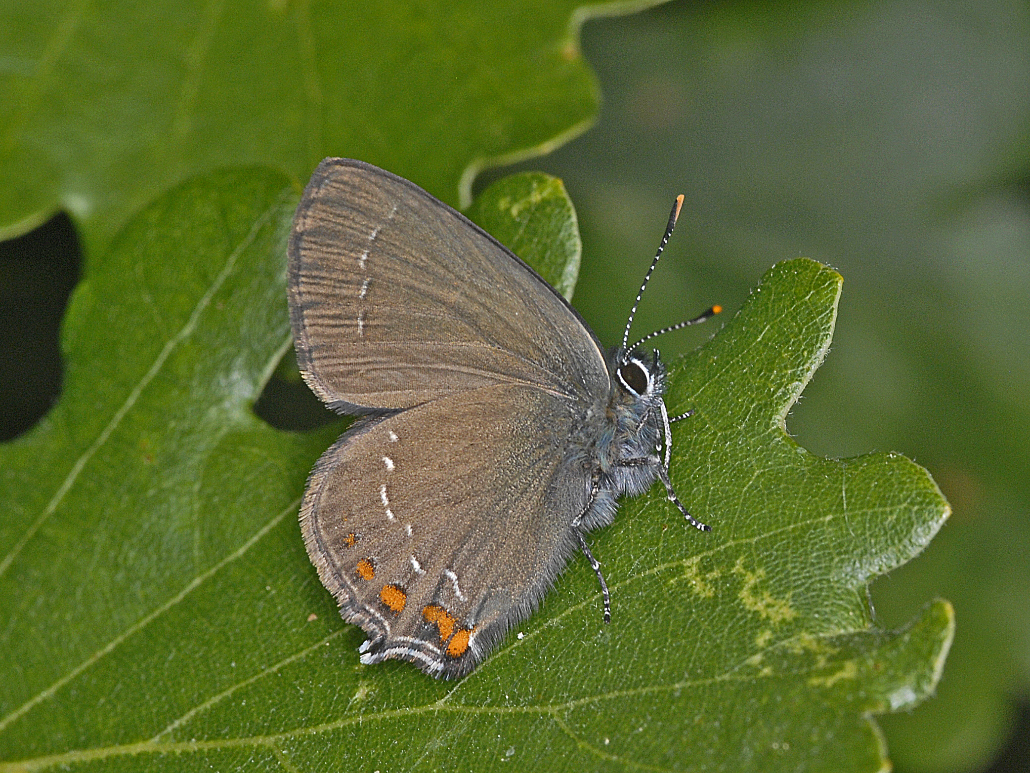 Satyrium ilicis, underside. Genova, Italy